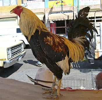 A fighting rooster being sold in Morelia, Mexico.